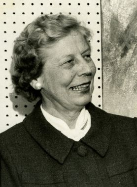 Collection: Shankle, Hugh W., Collection Call Number: PI/COL/1981.0066 System ID: 105908. Link to the catalog Caroline Compton, Vicksburg artist. View is portrait photograph of artist, Caroline Russell Compton (b. 1907 – d. 1987). Please see our profile page for information on ordering. Scanned as tiff in 2011/05/26 by MDAH. Credit: Courtesy of the Mississippi Department of Archives and History